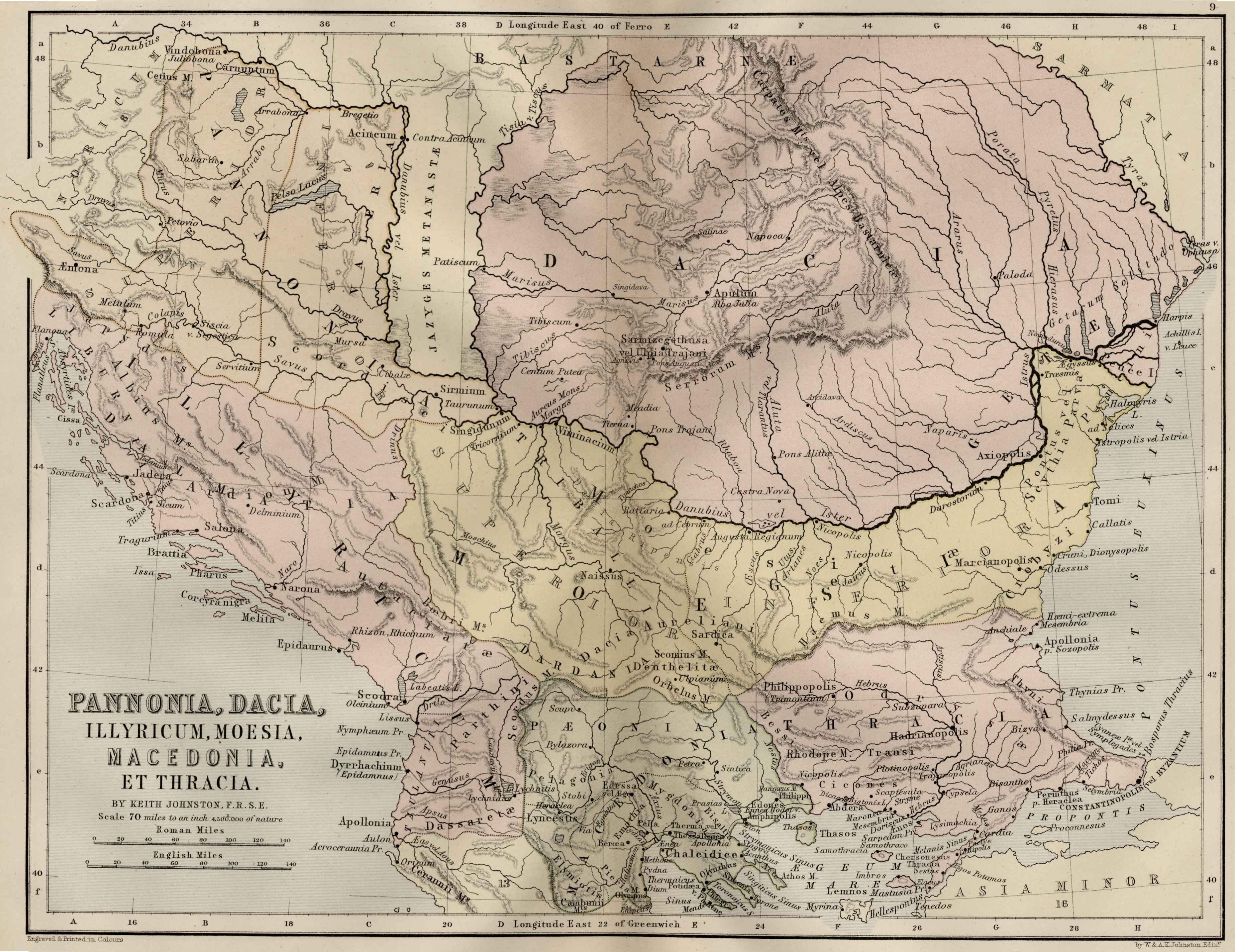 Pannonia, Illyricum, Moesia, Macedonia Et Thracia,(Map 9) This map includes even 2nd century AD (i.e. Adrianopolis) cities and perhaps even later ones.